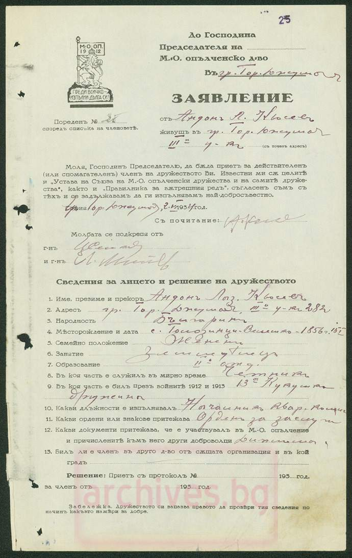 Andon Kyoseto's Document